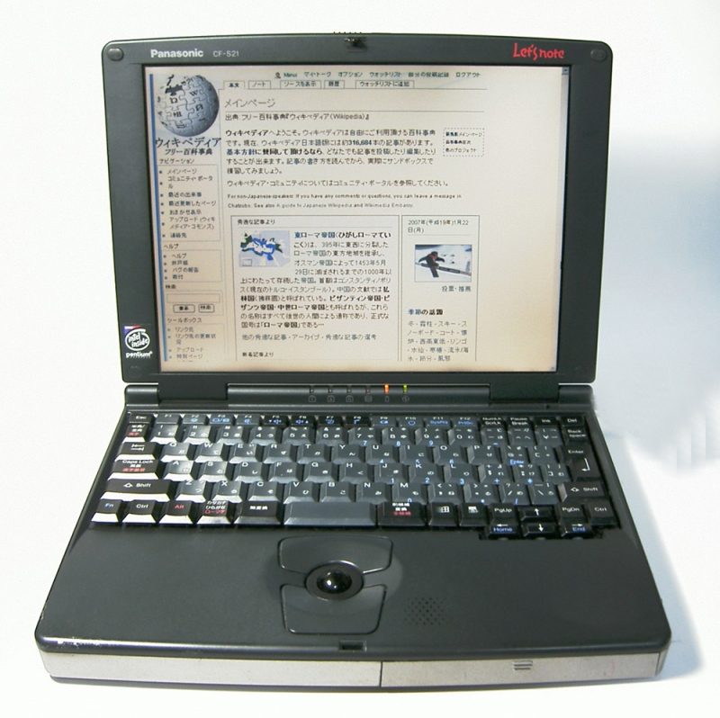 Personal Computer Let'snote CF-S21 Panasonic Japan